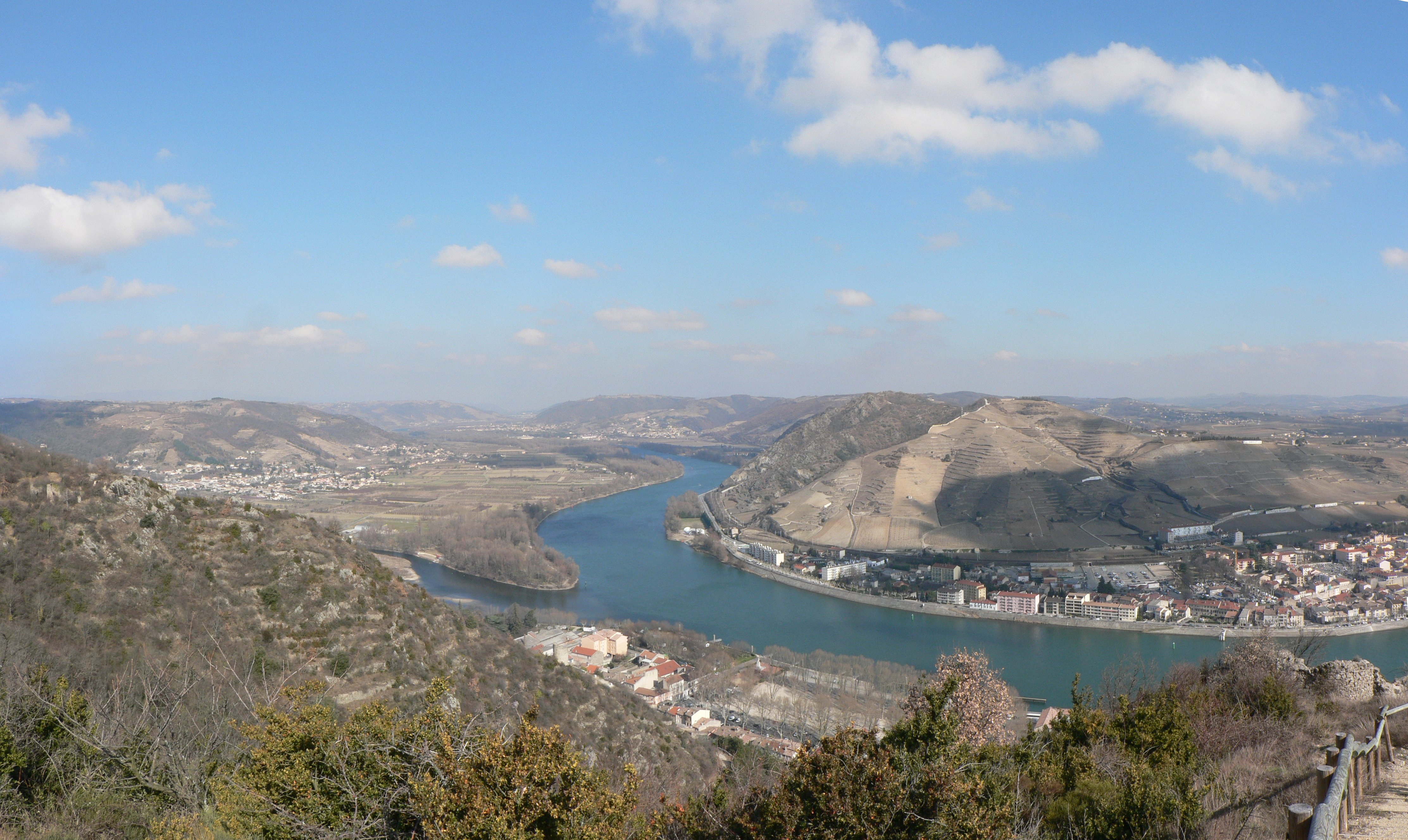 The Rhone Valley, seen to the north from the heights of Tournon-sur-Rhône